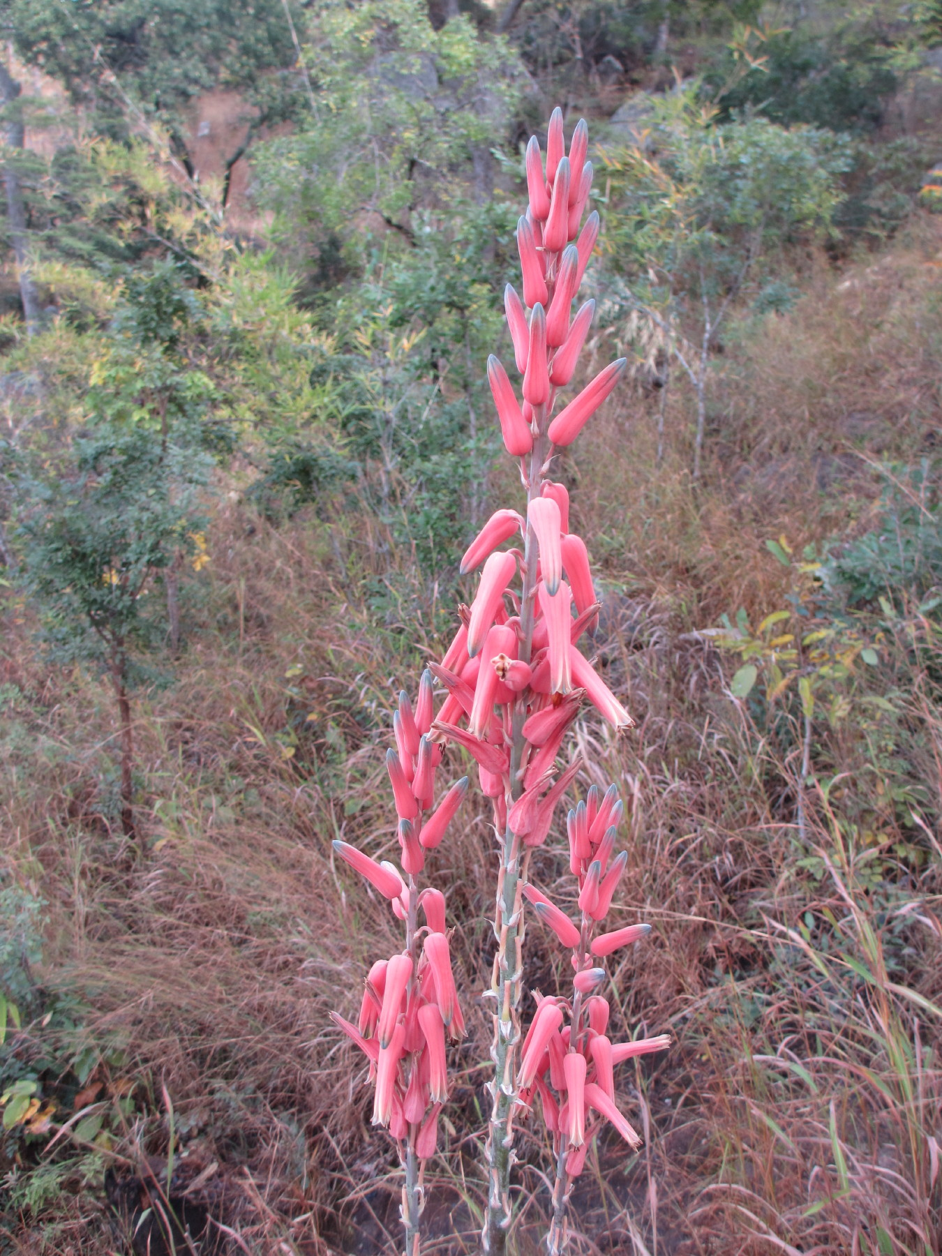 Top part of the tall inflorescence of Aloe christianii. This picture was taken in its natural habitat, on the Makonde plateau of northern Mozambique (about 600 m.a.s.).